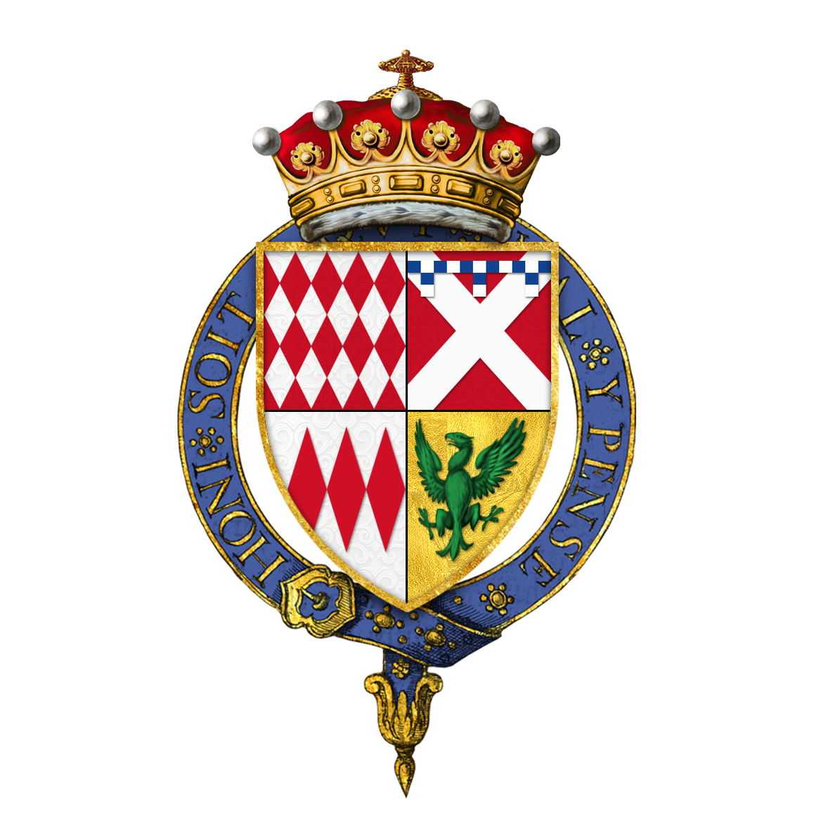 Simplified arms of Sir William FitzWilliam, 1st Earl of Southampton, KG Southampton's stall plate remains installed within St. George's Chapel -- the arms thereon quarterly of thirteen. I used the quartered arms engraved on Blaeu's 1645 map of Southampton as my reference for this execution. However, I will be recreating the arms to include all 13 quarters as illustrated on his stall plate. The arms here are, quarterly: 1, lozengy argent and gules (Fitzwilliam) 2, gules, a saltire argent, a label for difference (Neville) 3, argent, three lozenges conjoined in fess gules (Montagu) 4, or, an eagle displayed gules, armed azure (Pevensey)